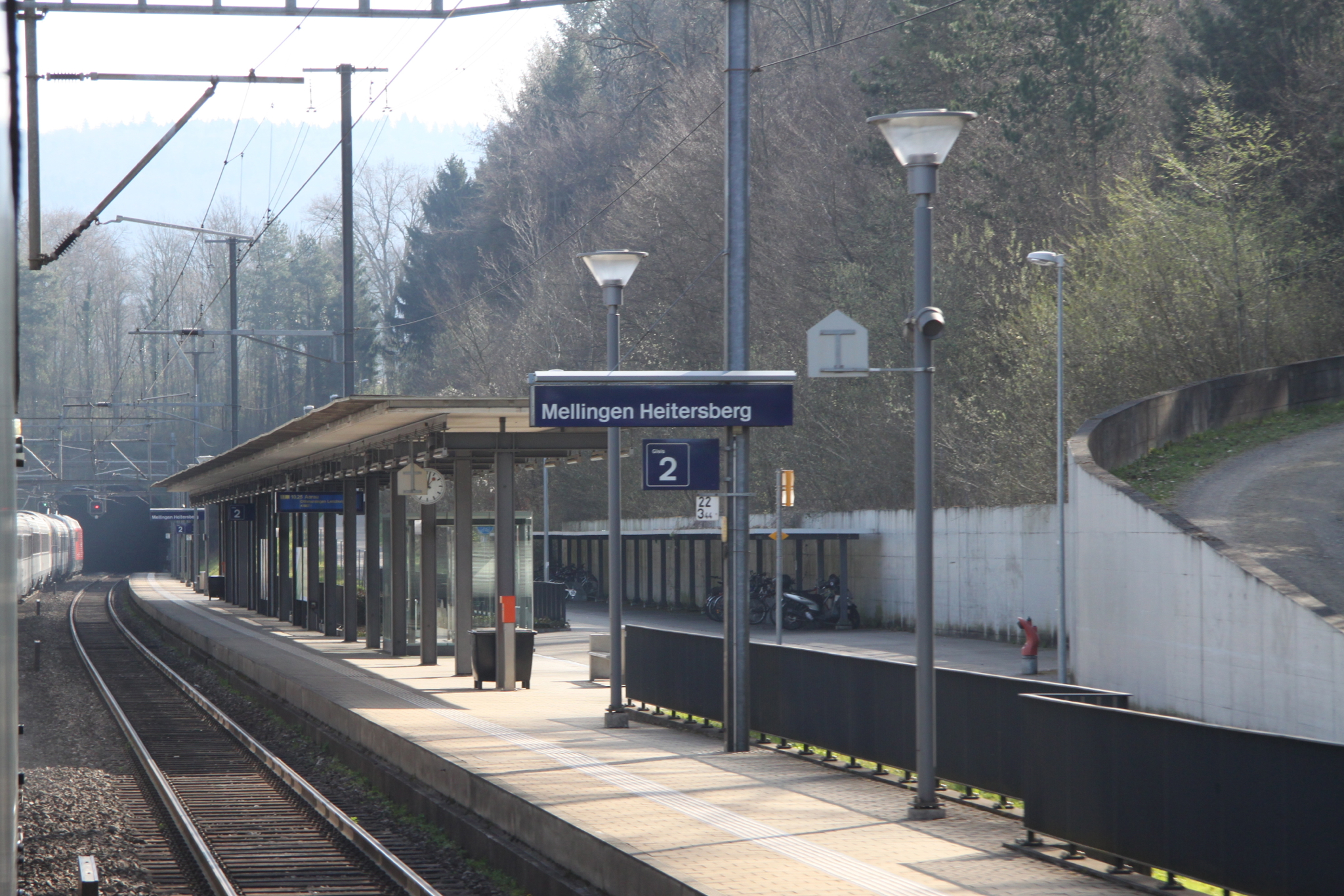 Mellingen Heitersberg train station.